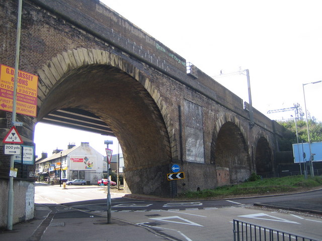 Bushey Arches This well-known landmark is a five arched viaduct completed around 1835 to take the London to Birmingham Railway over the London Road. Only the central arch, on the left here, is skewed. The others, including the two out of the image to the left, are square on to the railway. The underside of the newer metal viaduct installed on the eastern side when the railway was widened is just visible. Today the A411 road passes eastbound through this skewed central arch but this is also a roundabout with traffic passing through the far arch too. The cost of the construction of the viaduct in the 1830s was £9,700. The buildings visible through the arch are on Chalk Hill.